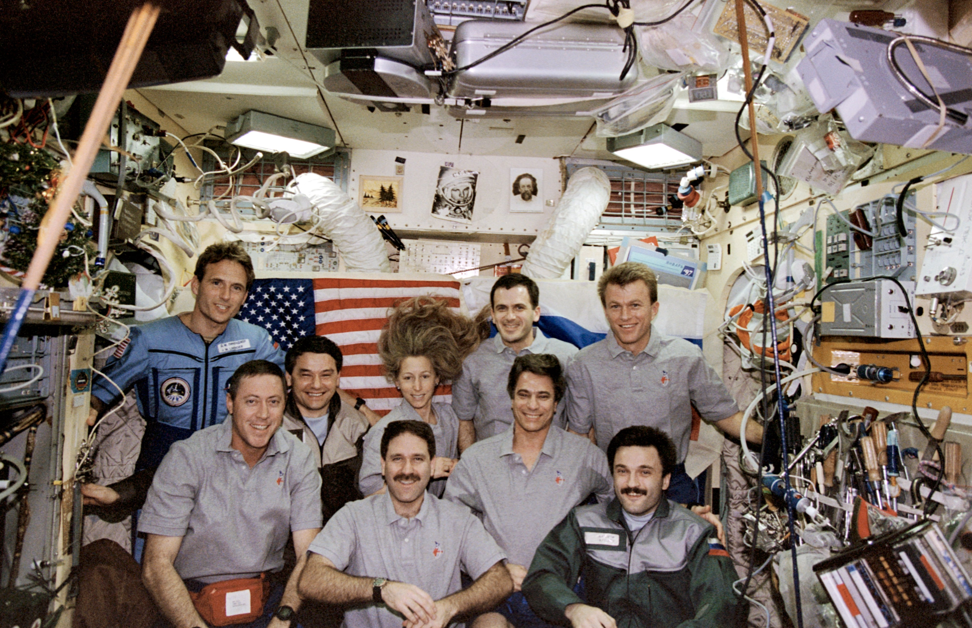 Joint in-flight portrait of the STS-81 and Mir-22 crew aboard the Mir space station Base Block. Front row (l.-r.) STS-81 commander Michael Baker, mission specialist John Grunsfeld, mission specialist John Blaha and Mir-22 flight engineer Alexander Kaleri. Back row (l.-r.) Mission specialist Jerry Linenger, Mir-22 commander Valeri Korzun, STS-81 mission specialists Marsha Ivins and Jeff Wisoff and STS-81 pilot Brent Jett.